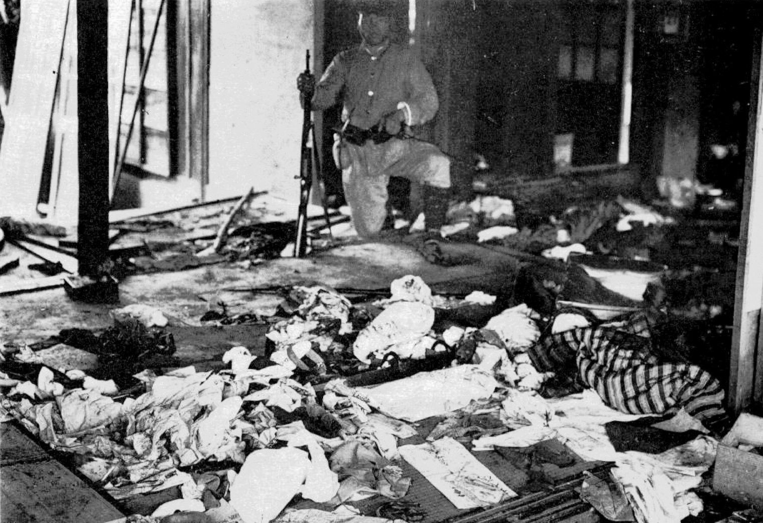 The scene of the Wushe Incident